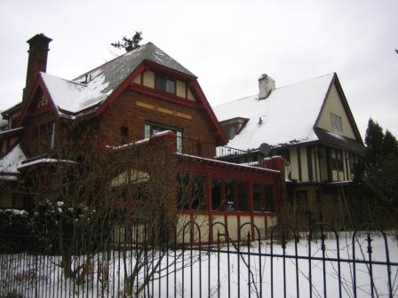 Collins House and adjacent Kelly House, 2201 and 2205 East Genesee St., Syracuse, New York